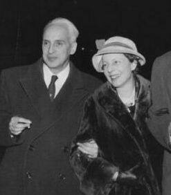 Severo Ochoa with fife at the 1959 Nobel ceremonies